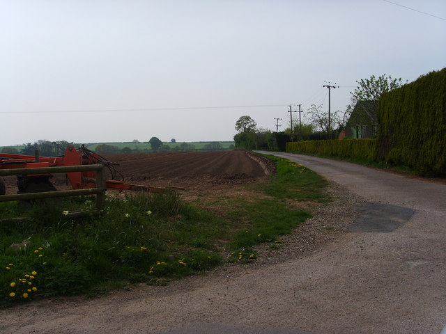 Badger Heath Farm Lane at Badger Heath leading to Badger Heath Farm and Dingle Cottage.